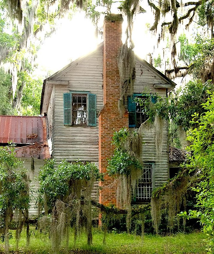 Side view of Glen Echo, Ellabell, Georgia.